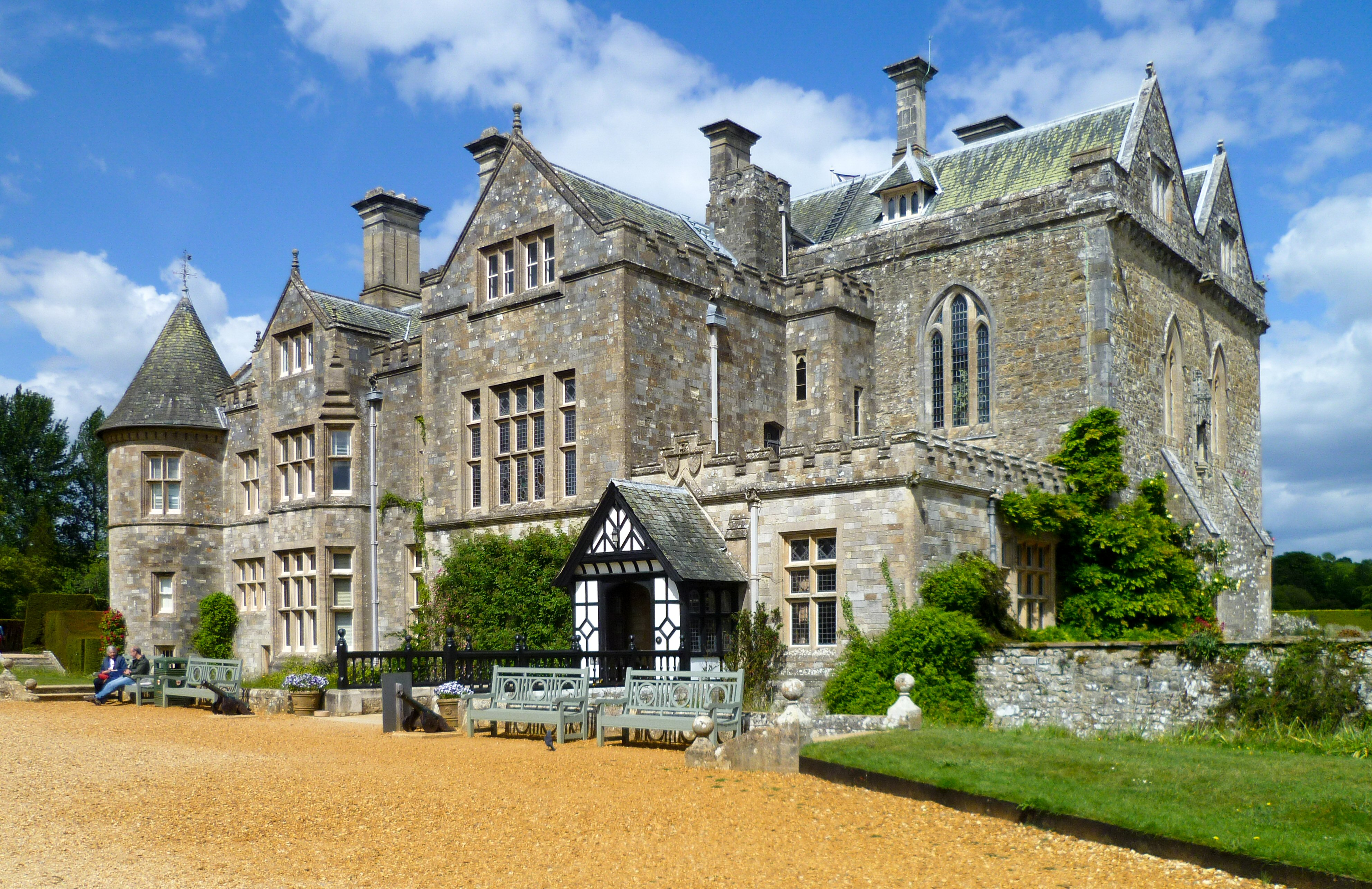 Beaulieu Palace House, Beaulieu, Hampshire, England.